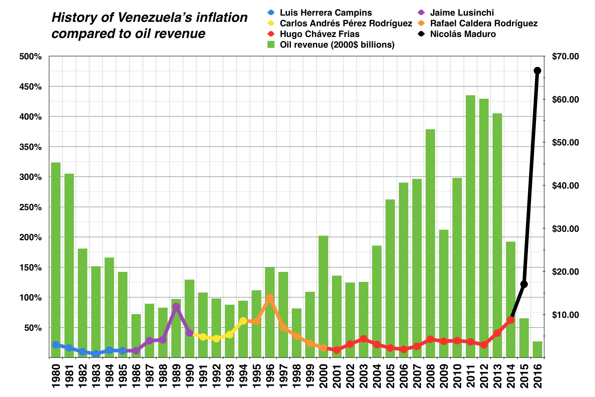 Historic rates of inflation and oil revenues in Venezuela from 1980 to present. Sources: EIA 1, EIA 2, International Monetary Fund: Data & Statistics (1980-2016), CIA: The World Factbook (2009–2014), Business Insider (2014, 2015), BBC (2016)